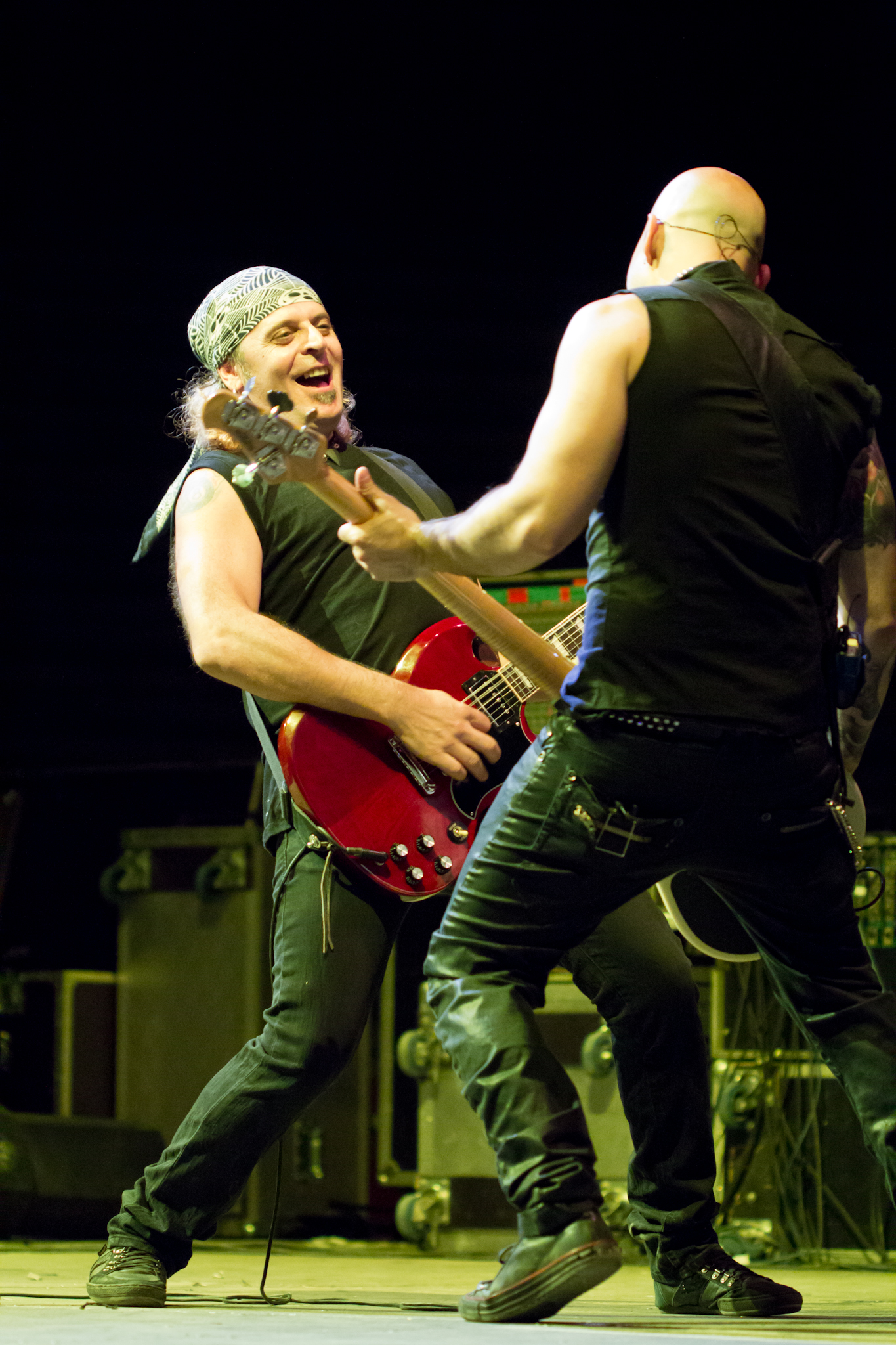 Spanish metal band Sôber at Asaco Metal Fest 2013 (Parla, Spain) with guitarist Carlitos from Mägo de Oz as guest.